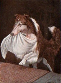 Lad, a Rough Collie, carries a baby waddled in cloth up the steps: this drawing was the frontispiece for Albert Payson Terhune's Further Adventures of Lad (1922), which was published by New York's George H. Doran Company.